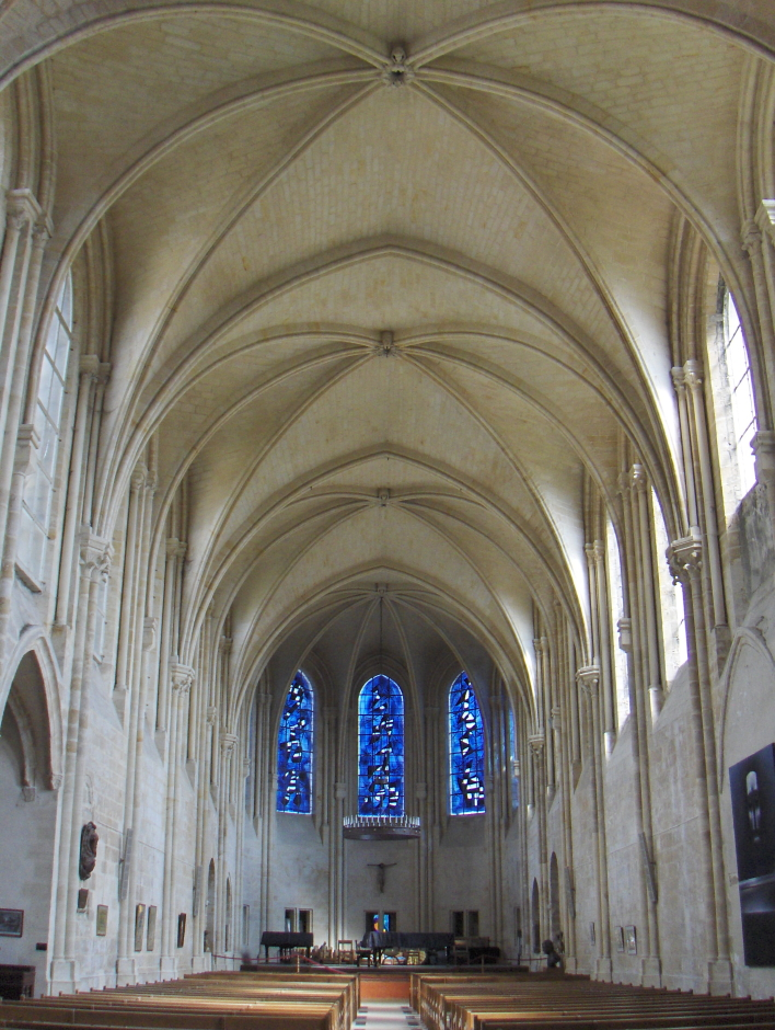 View inside Collegiale Saint-Frambourg at Senlis, Oise, France